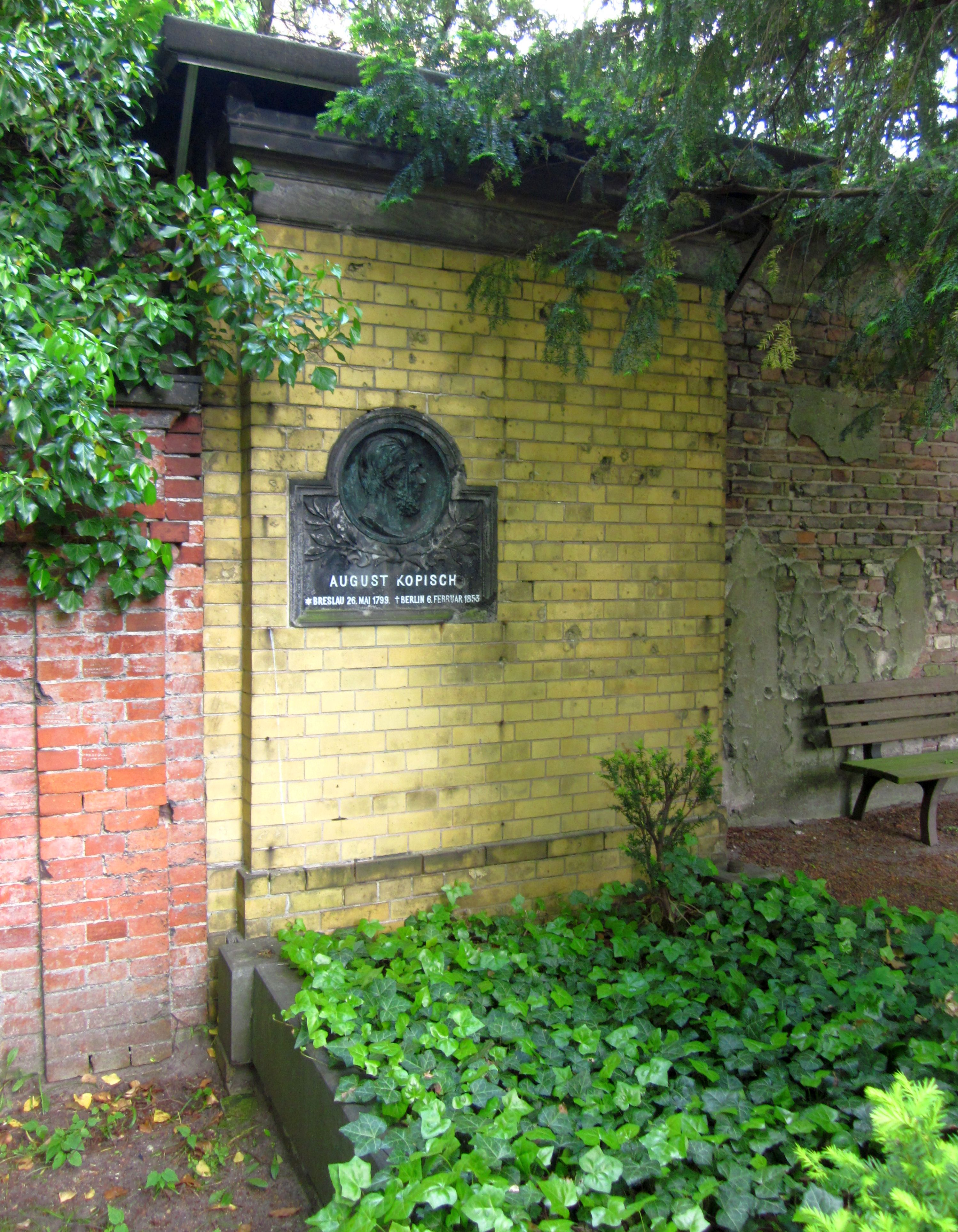 Grave of the painter and writer August Kopisch (1799-1853) on the Dreifaltigkeitsfriedhof II cemetery at Bergmannstraße in Berlin-Kreuzberg. Grave of Honor of the State of Berlin.